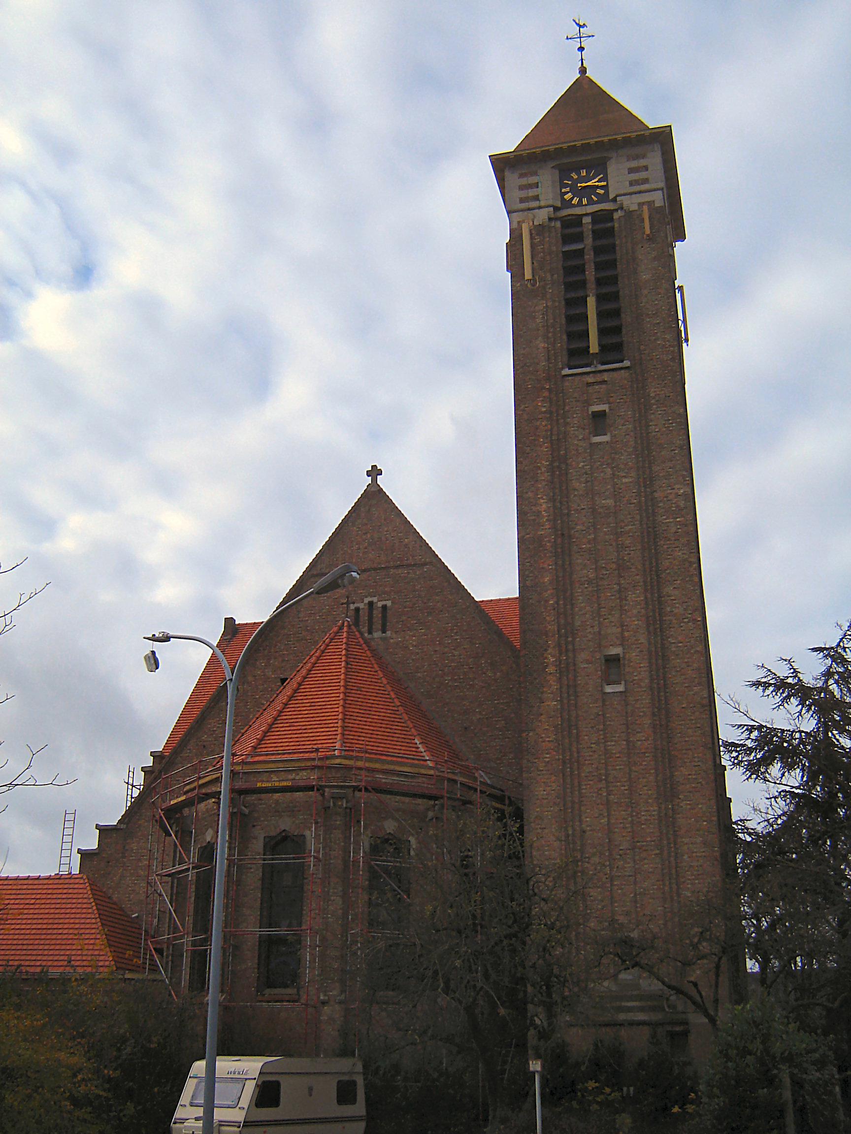 Church of Saint Catherine in Assebroek. Assebroek, Brugge, West Flanders, Belgium.